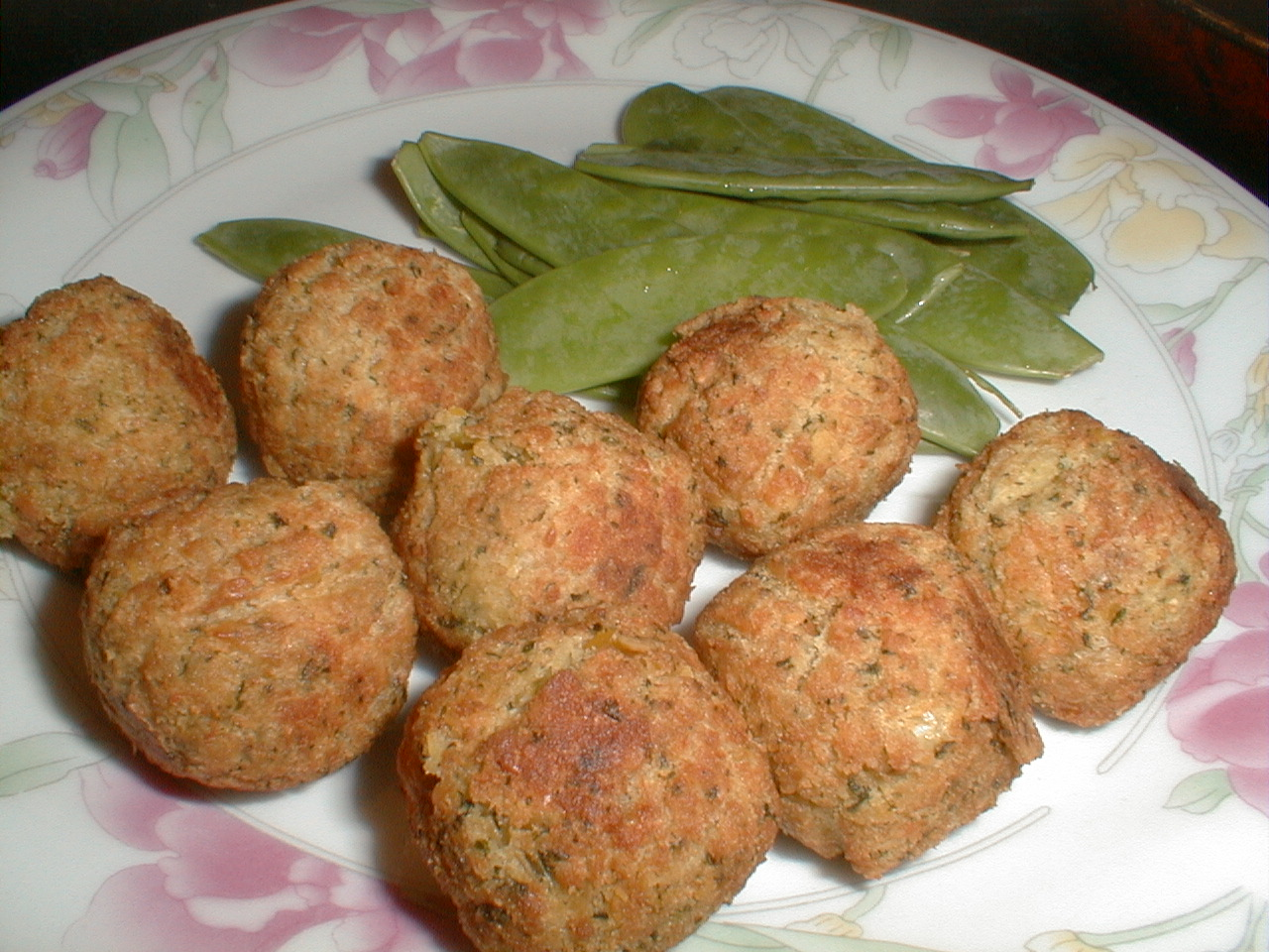 falafel balls - fried made from spiced fava beans and/or chickpeas